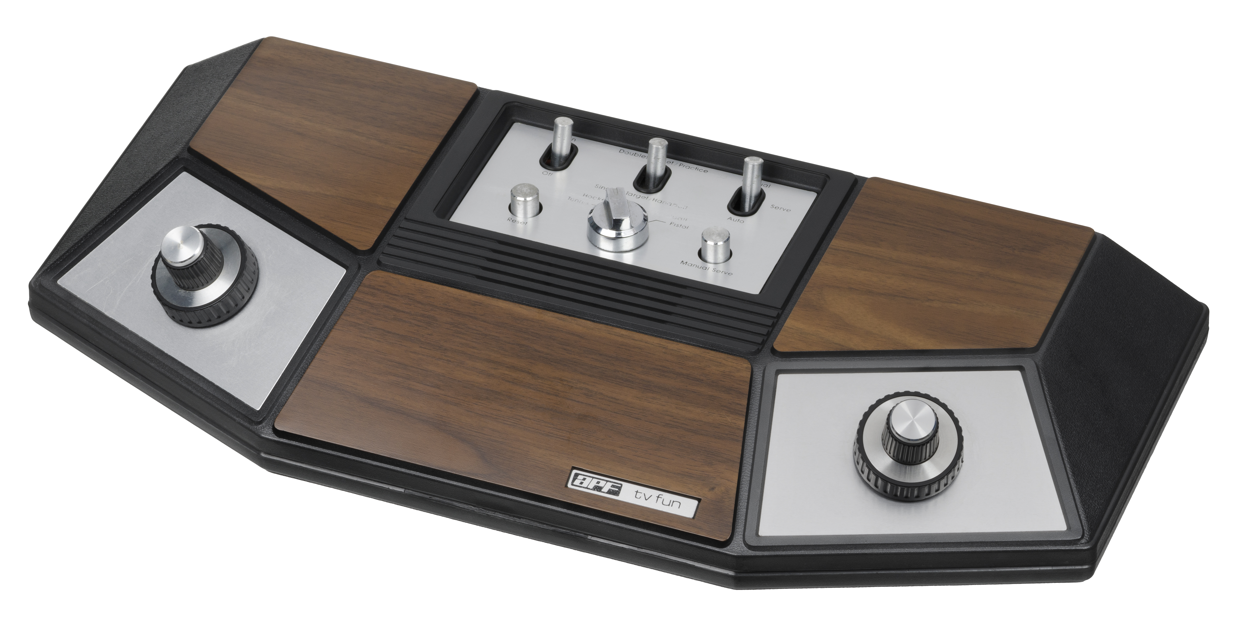 The APF TV Fun (model 402C), a Pong console released by APF Electronics in 1976. This system offers Pong-style games as well as light-gun shooting.